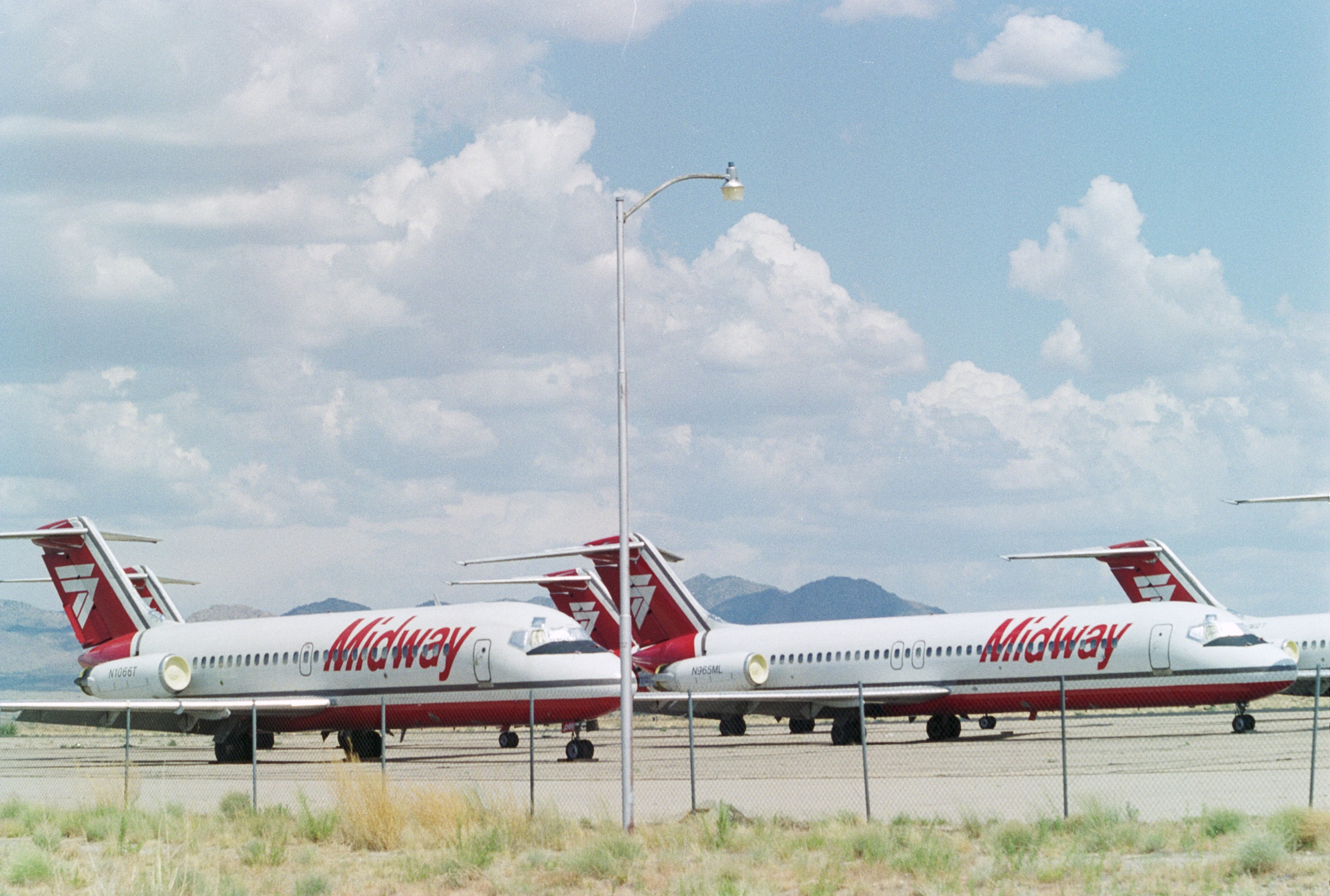 N1064T (cn 45780/93) Douglas DC-9-15 Midway Airlines. (Later served with TAESA, Mexico as XA-SYF. Scrapped 2000). N965ML( cn 45874/351) McDonnell Douglas DC-9-32 Midway Airlines.(Still operating with DHL as N929AX in 2006). Kingman (IGM) USA - Arizona, August 3 1991